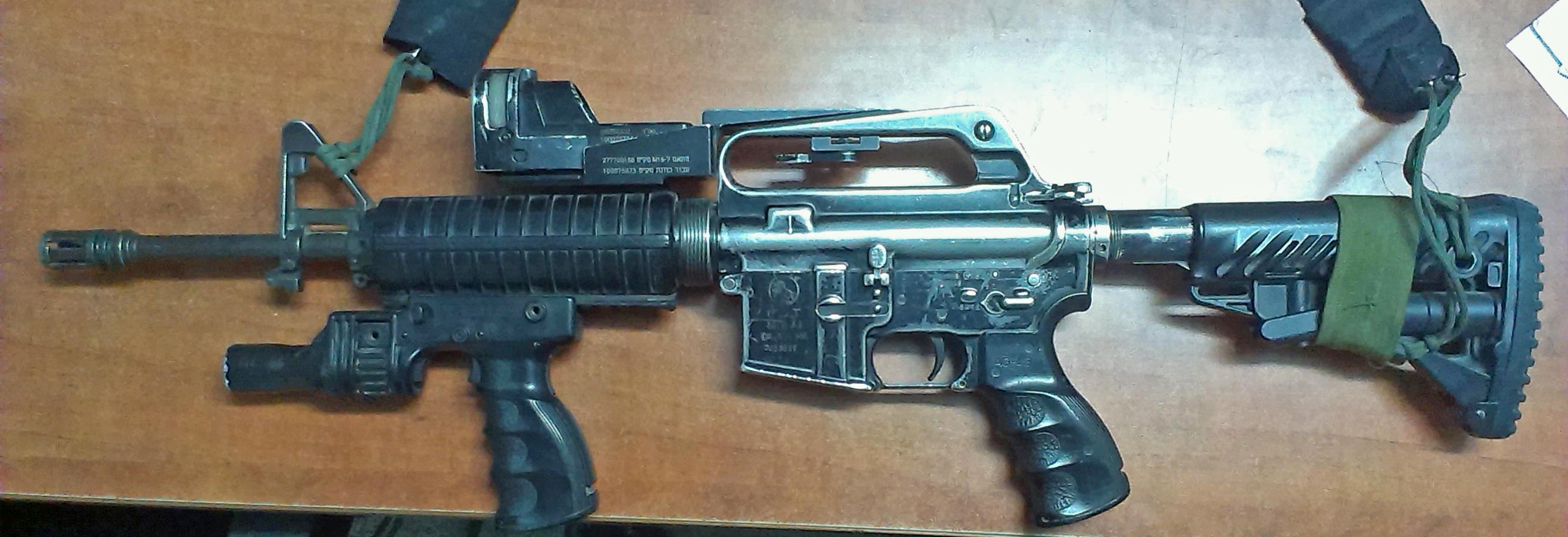 Israel Defense Forces M16 carbine with mephrolight reflex sight